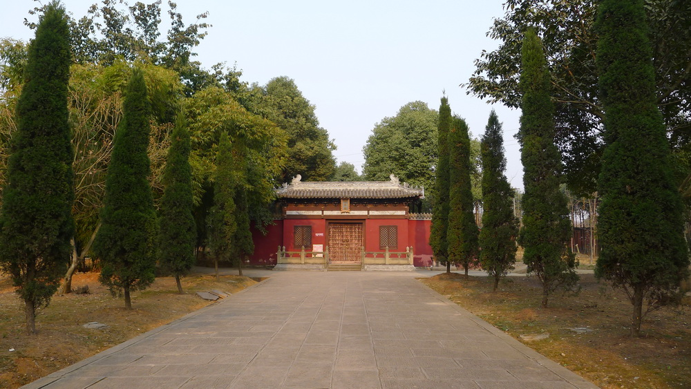 King Xi's Mausoleum, one of the Shu Kings' mausoleums of Ming Dynasty. Chinese National Key Protected Cultural Heritage.